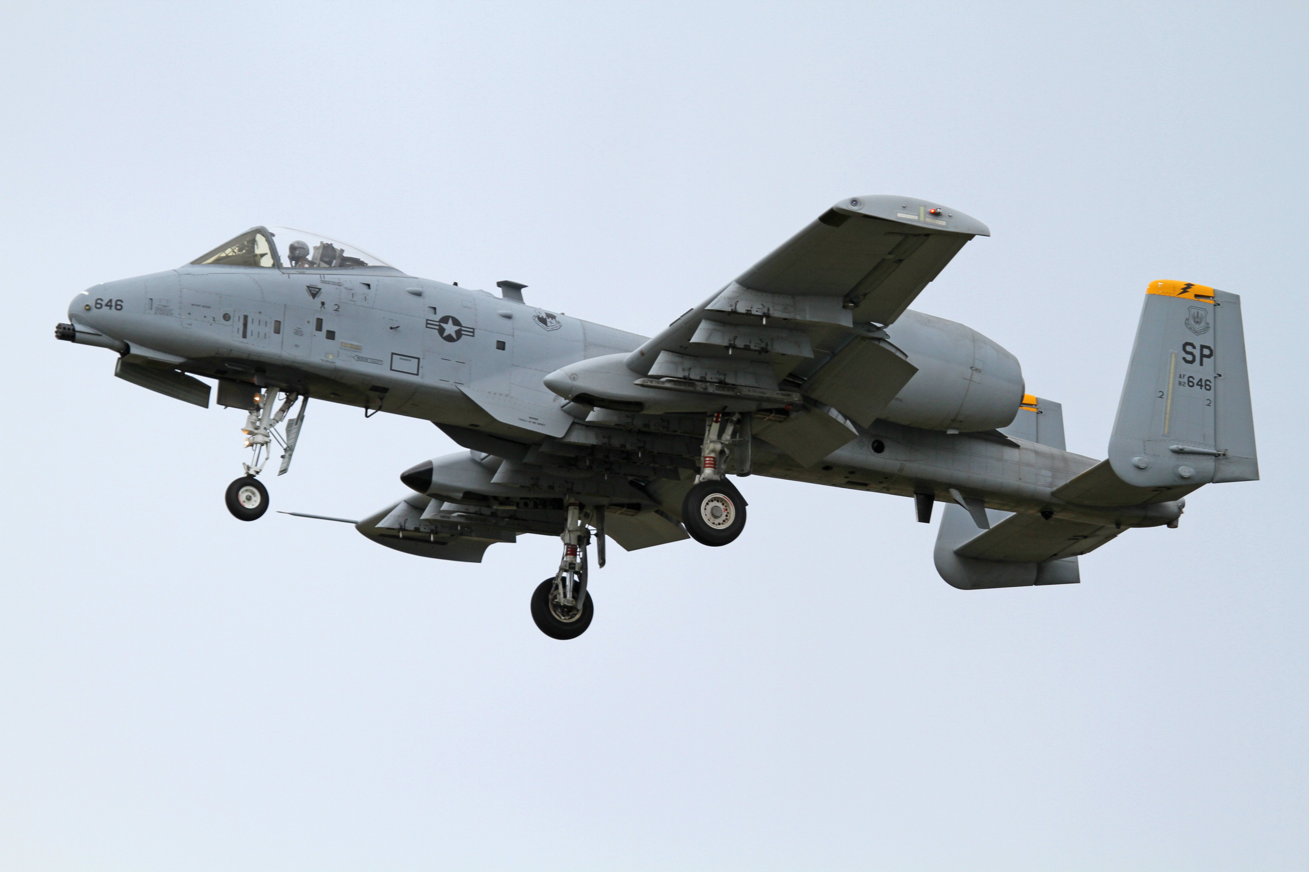 RIAT 2011